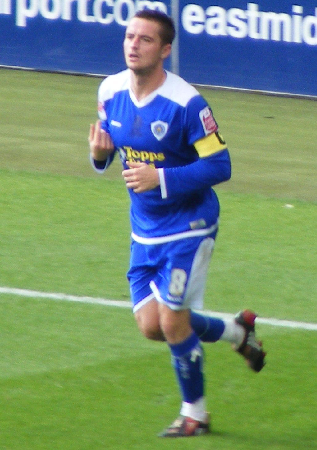 Matt Oakley Leicester City skipper